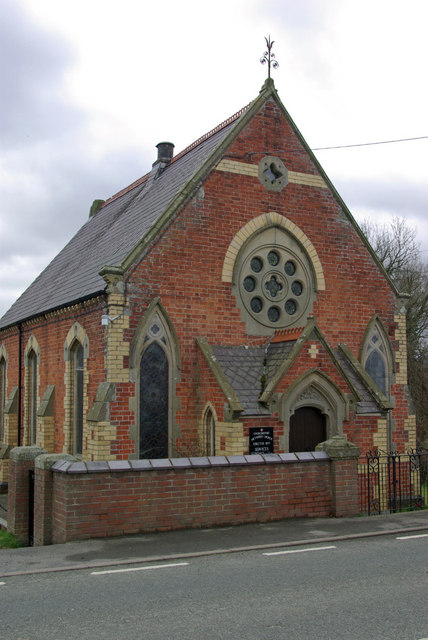 Churchstoke Methodist Church The wealth of architectural detail on this small roadside chapel is worth noting.